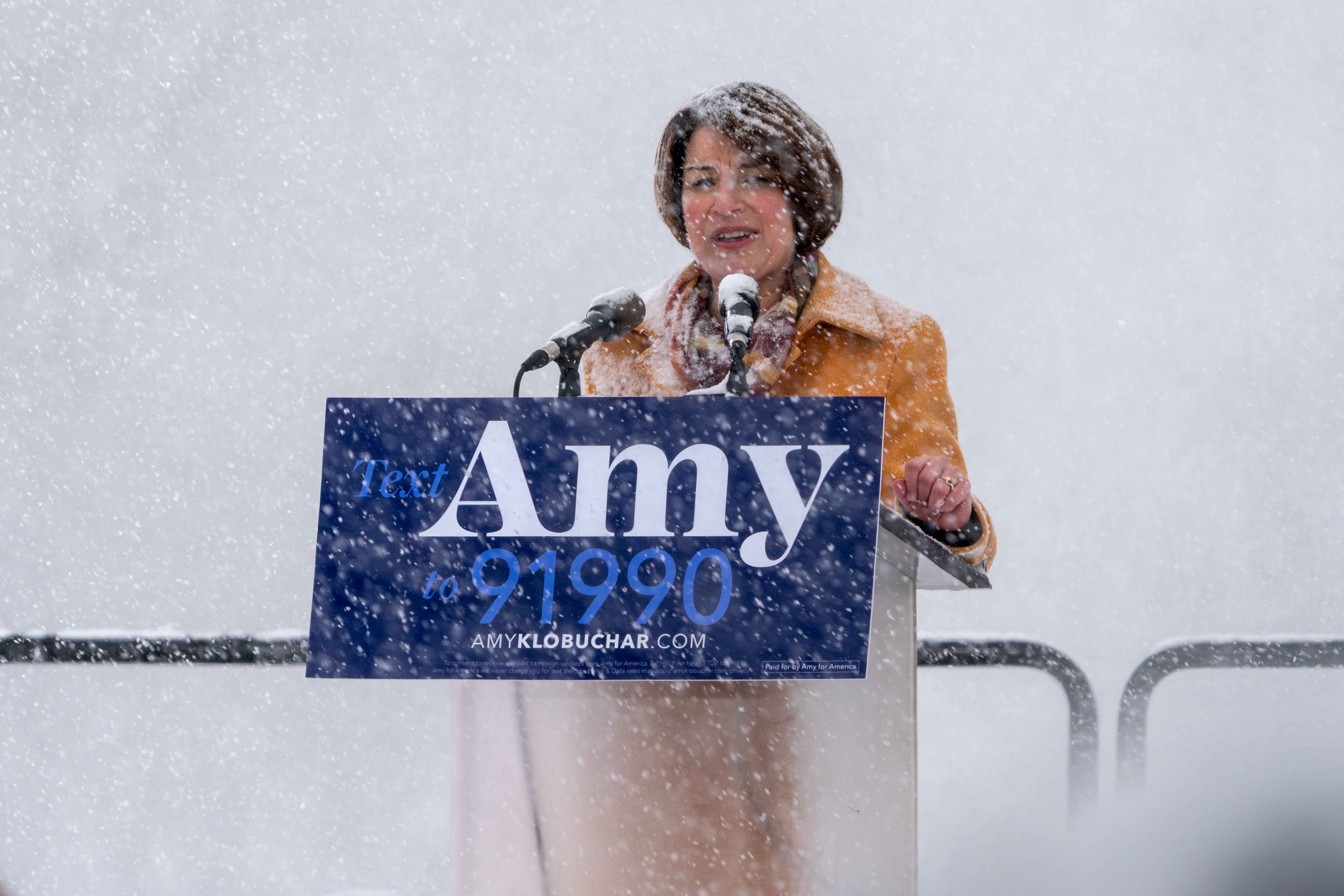 Senator Amy Klobuchar made her announcement to run for president in 2020 on a snowy Sunday at Boom Island Park in Minneapolis, Minnesota.